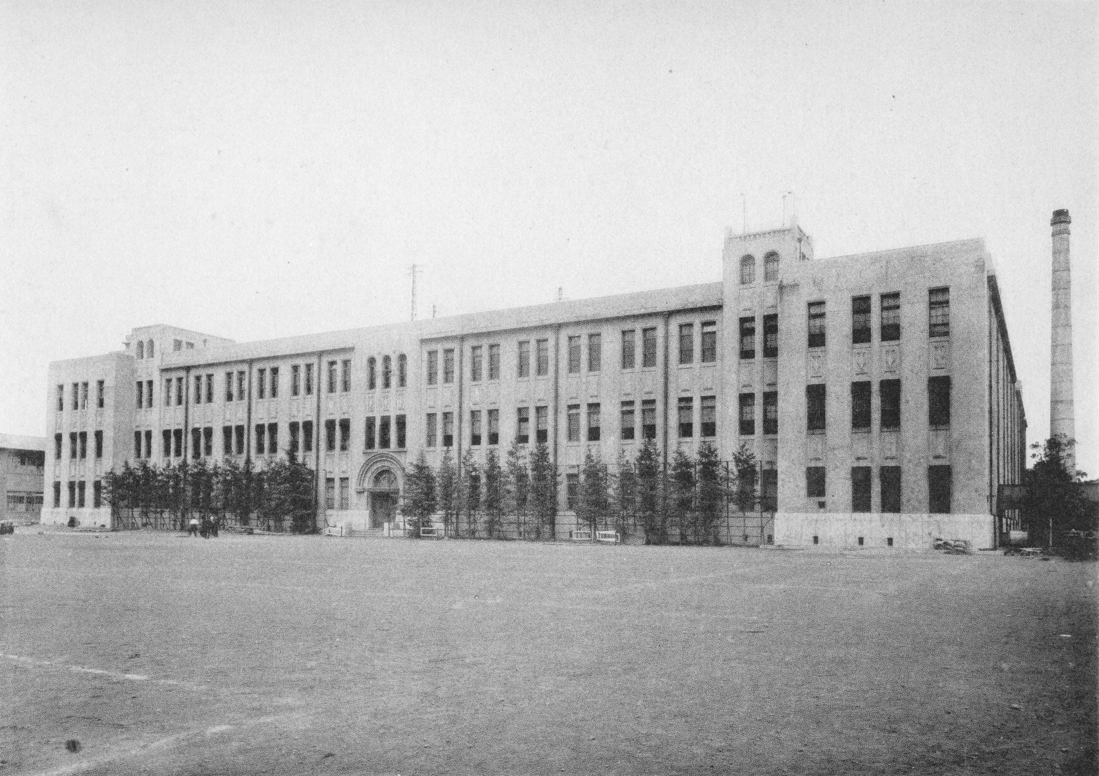 West building of the Tokyo University of Literature and Science.